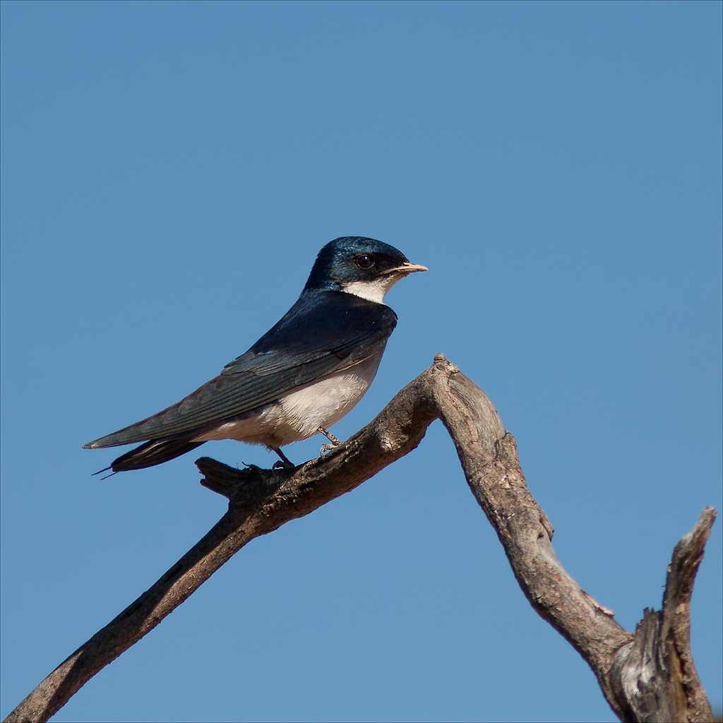 Pearl-breasted Swallow (Hirundo dimidiata) - Botriver, Western Cape, South Africa. Photo by Craig Adam.